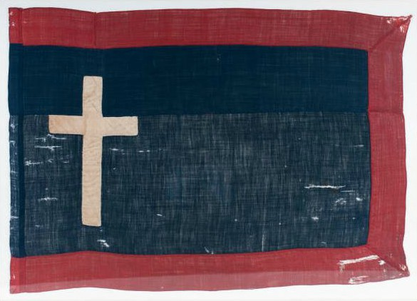 1st Missouri Dismounted Cavalry (CSA) Flag, Missouri State Archives